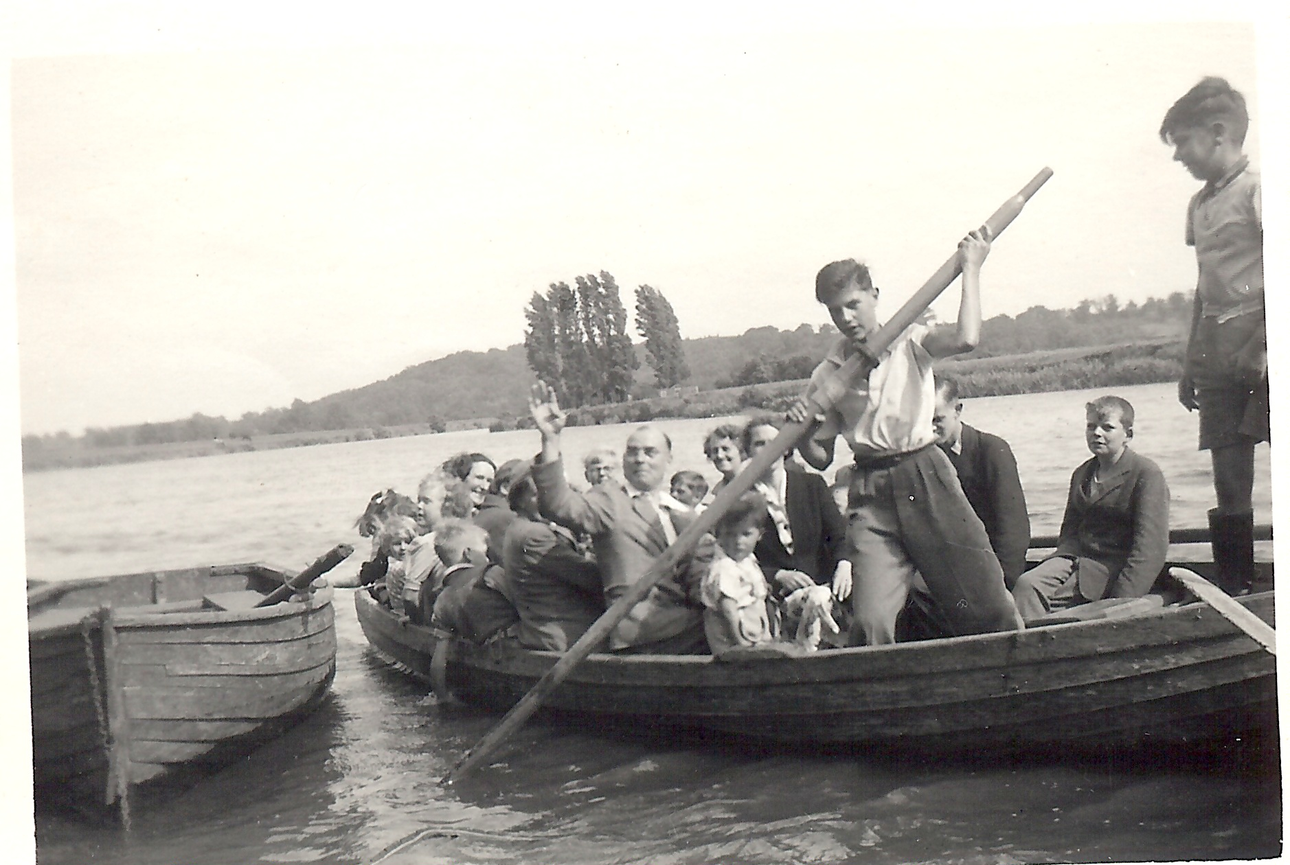 A ferry from a farm near to Barton in Fabis on the River Trent. Picture taken in 1949 by Arthur Beniston.